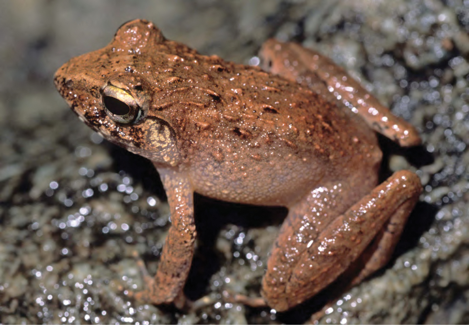 Platymantis taylori (PNM 8676) from San Mariano. Photo: ACD.